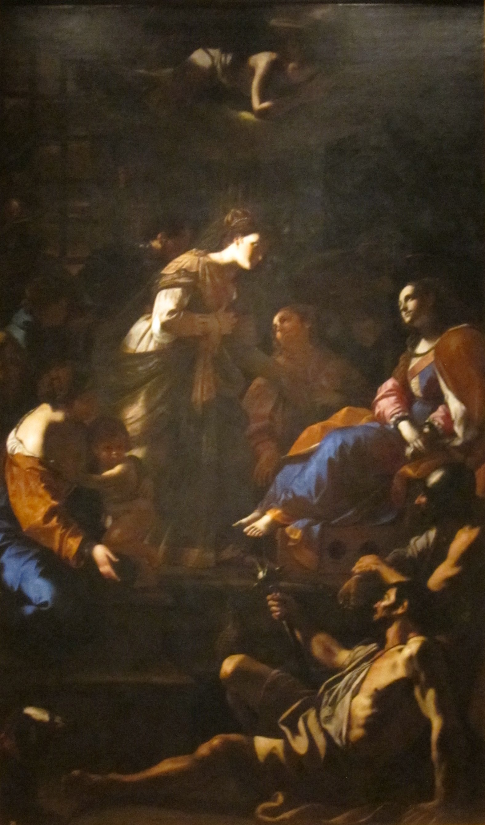 The Roman Empress Faustina Visiting St. Catherine of Alexandria in Prison